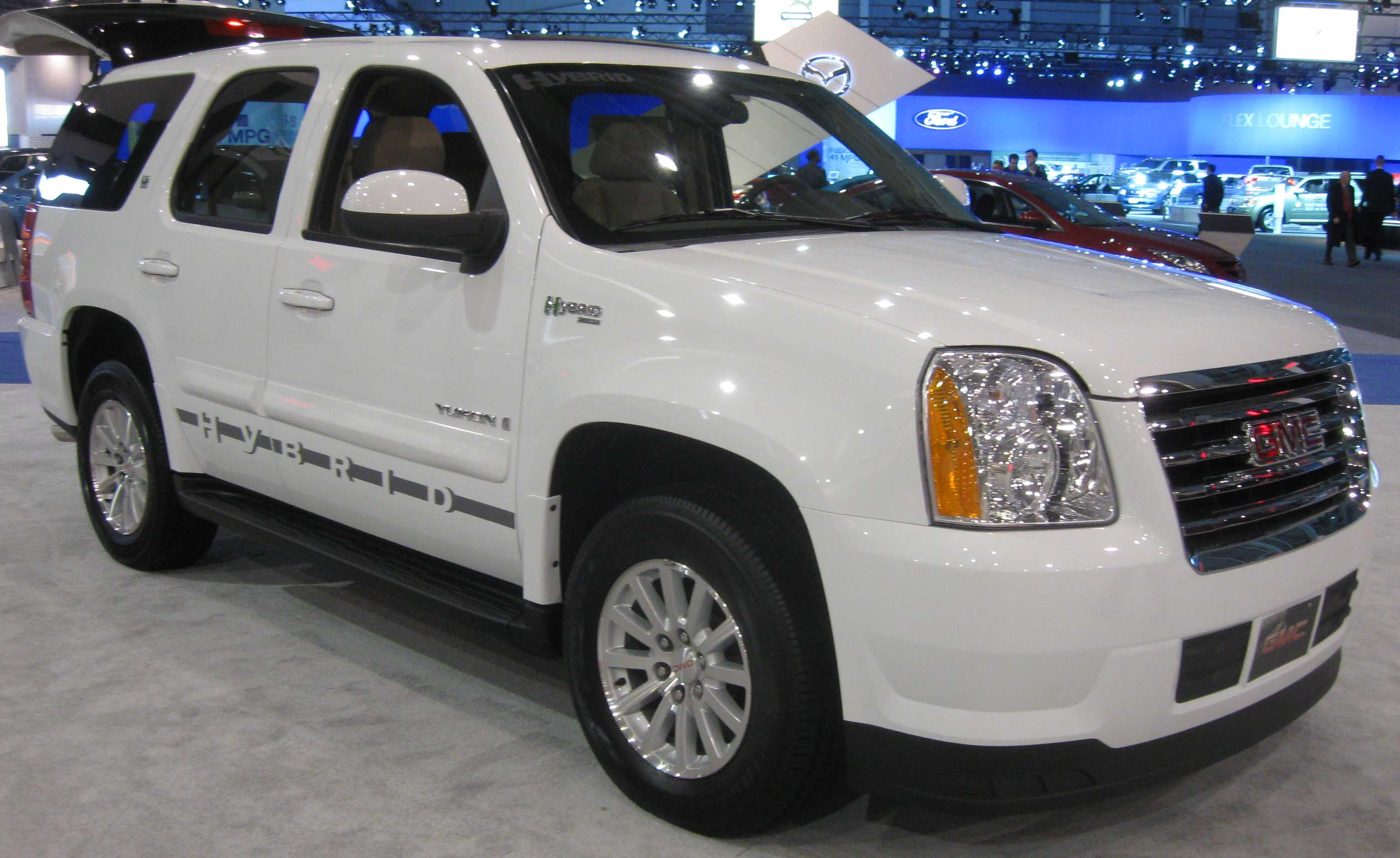 2009 GMC Yukon photographed at the 2009 Washington DC Auto Show.